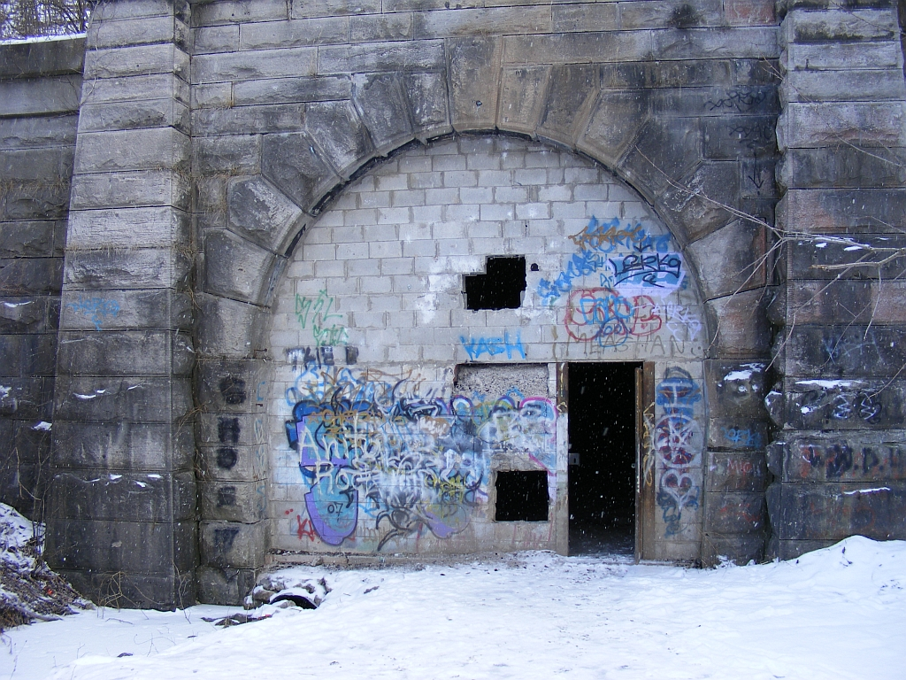 Photo of the Merriton Tunnel in winter, after being sealed.